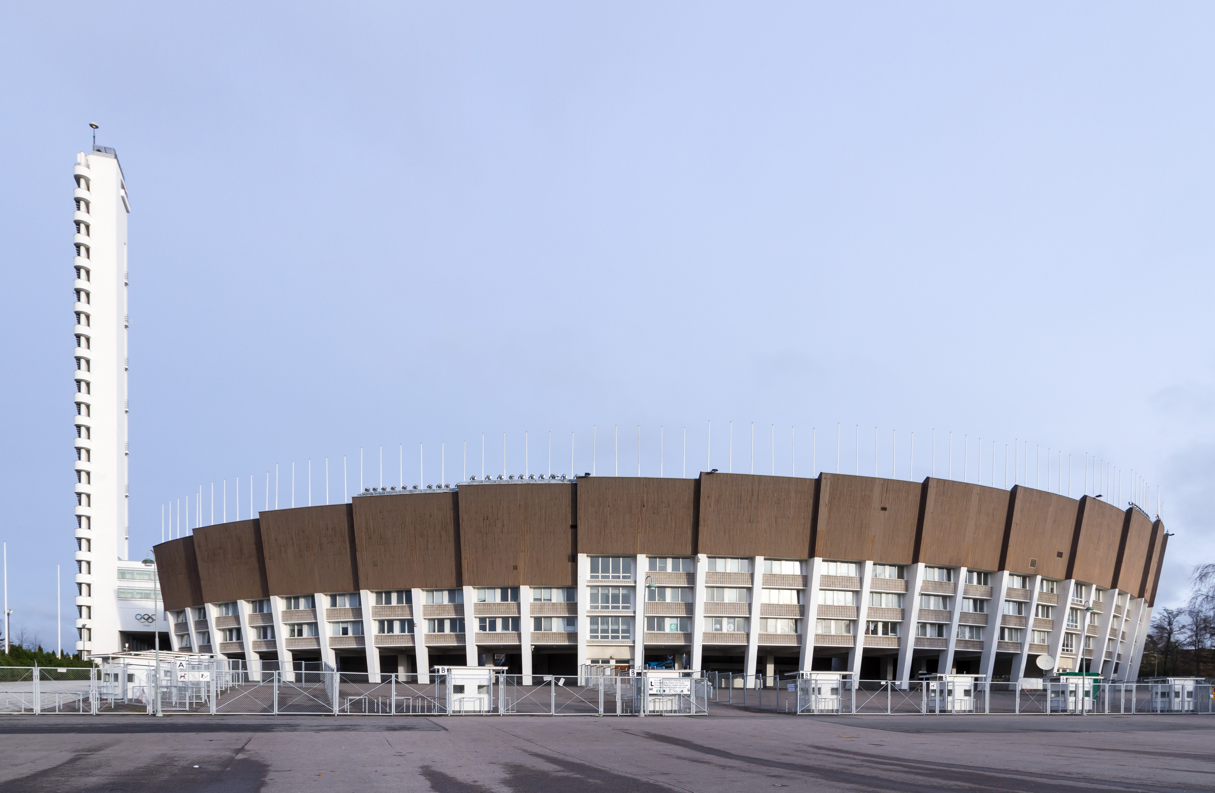 Helsinki Olympic Stadium